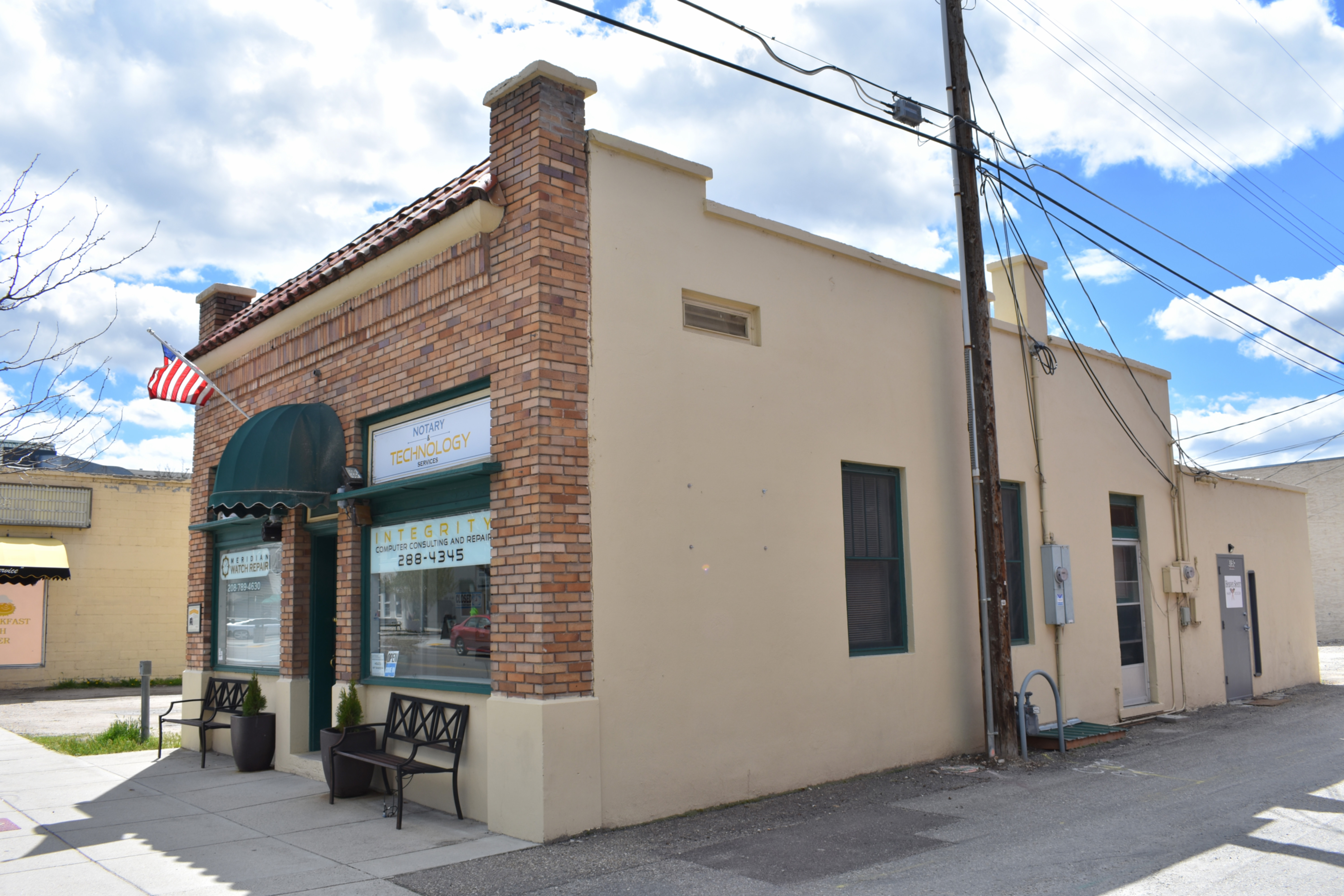 The Mountain States Telephone & Telegraph Company building in Meridian, Idaho, was constructed in 1928 and is listed on the National Register of Historic Places.